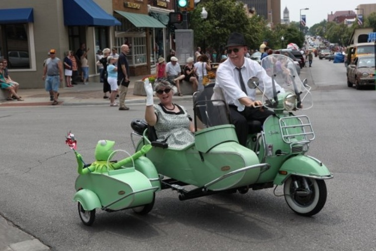 The Stella is equipped with a matching sidecar.